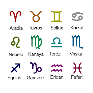 The logos of the twelve Troll characters in Homestuck. Though they are simple Zodiac symbols, the colors align with the specific Troll's blood color (with the exception of Karkat).